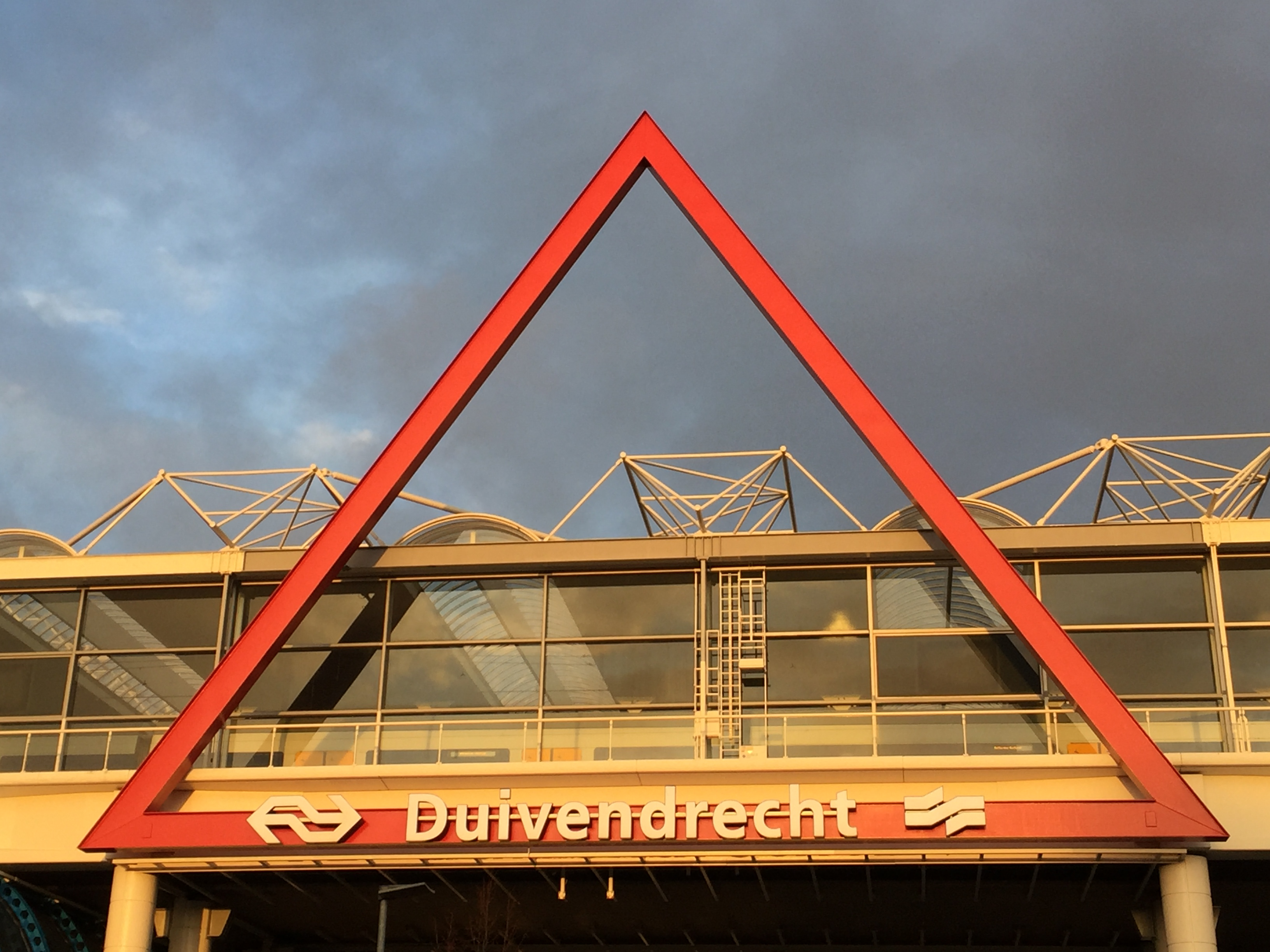 Railway Station Amsterdam Duivendrecht